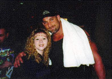 The wrestler Bill Goldberg with a fan